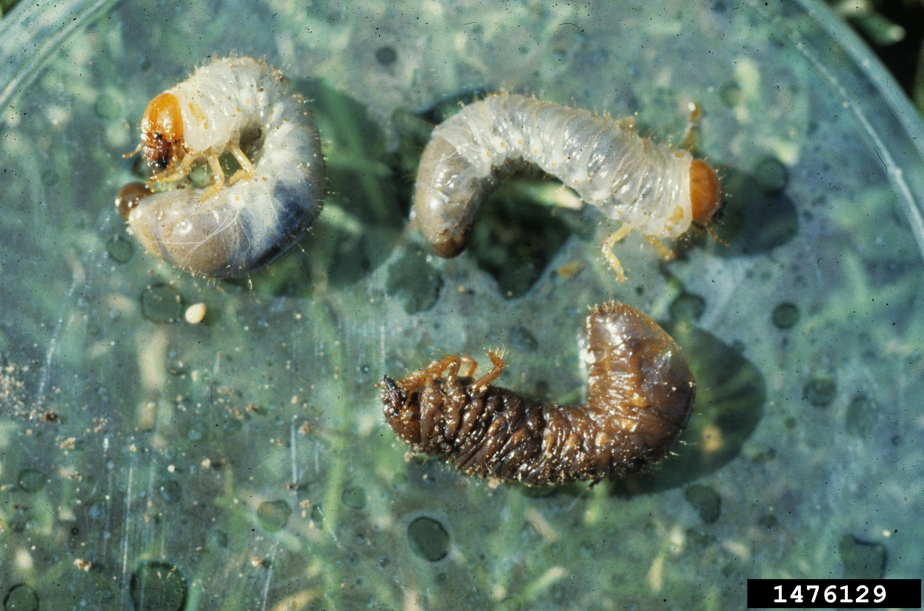 White grub larva killed by Heterorhabditis bacteriophora next to two healthy larvae (Heterorhabditis bacteriophora at Scarabaeidae larva)